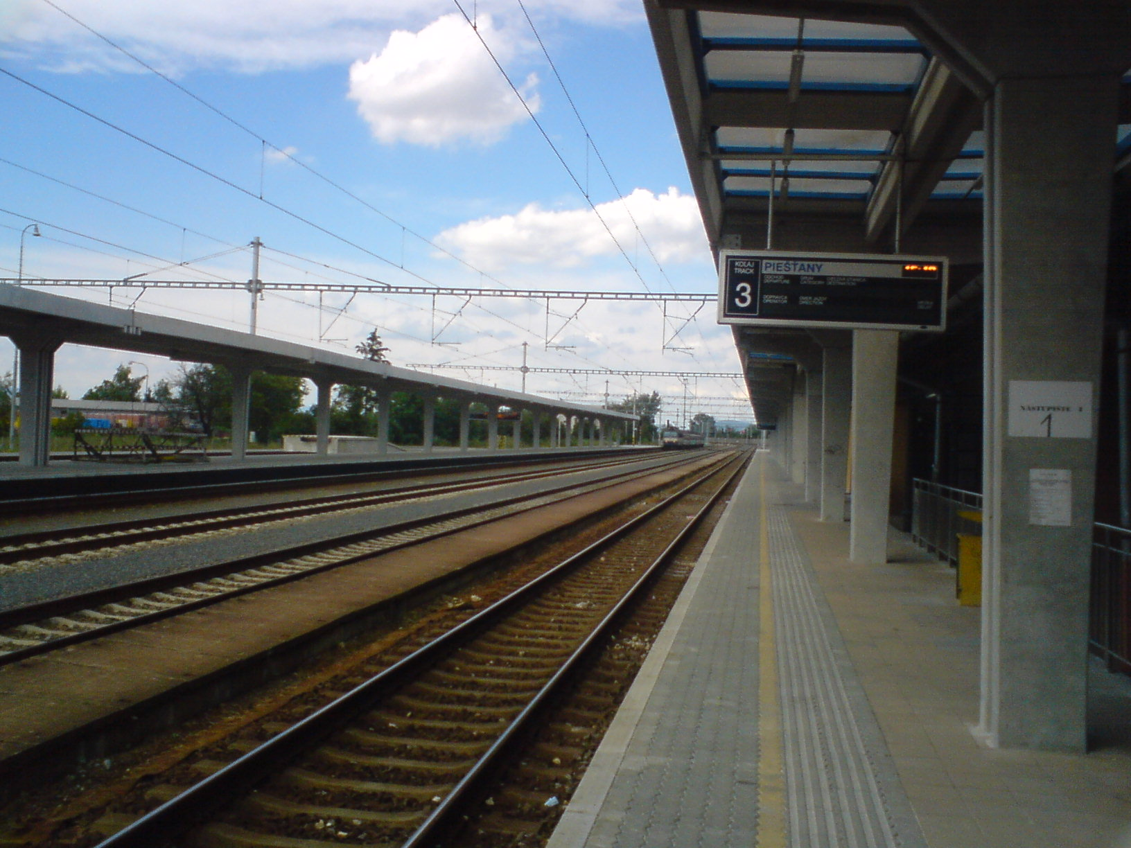 train station in Piešťany, Slovakia